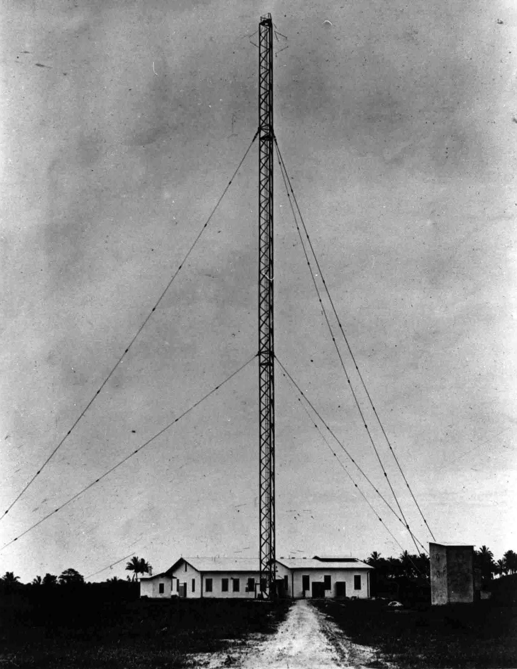 Transmitting Station Kamina (Togo)